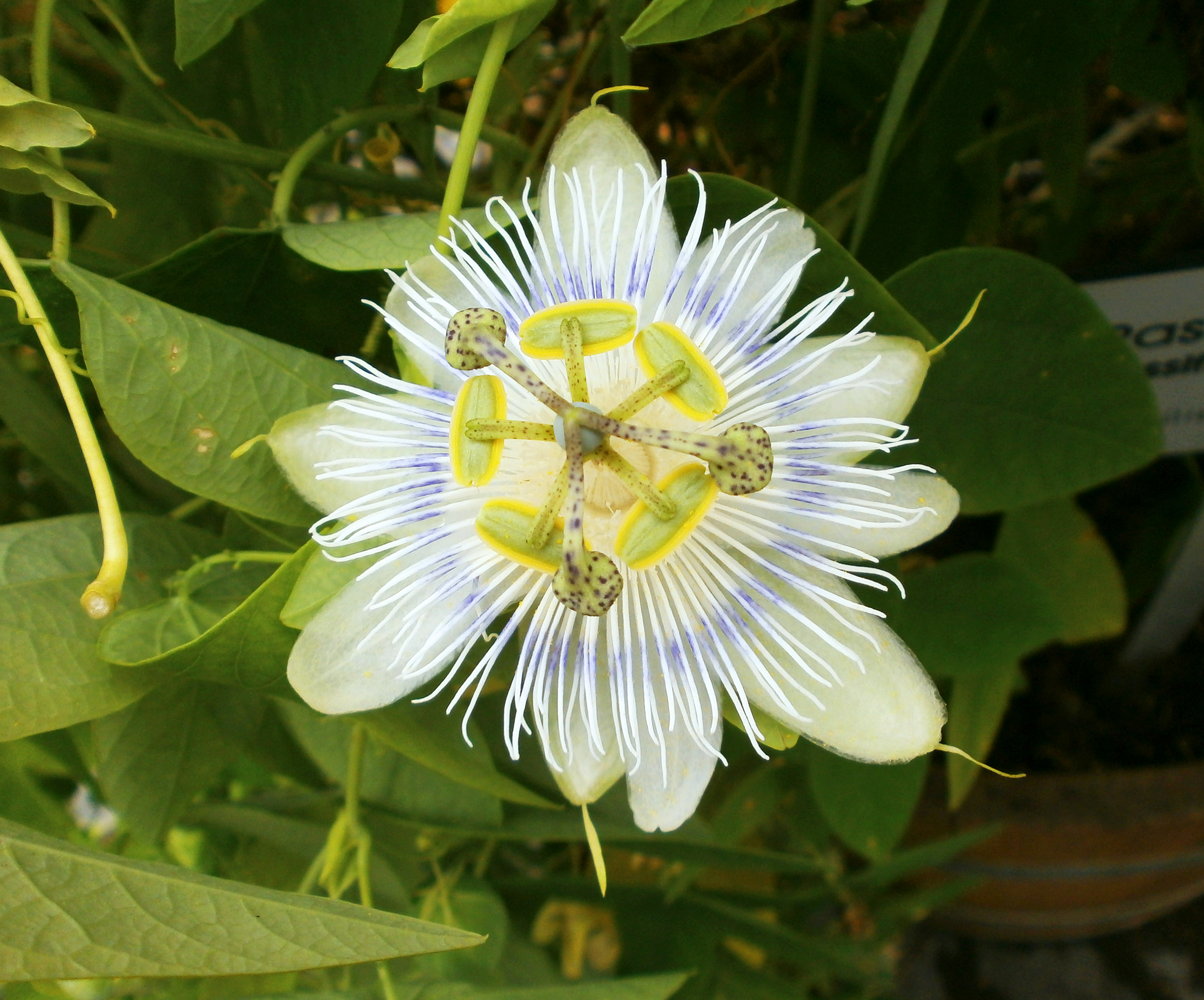 Flower; Mainau, Lake Constance, Germany.